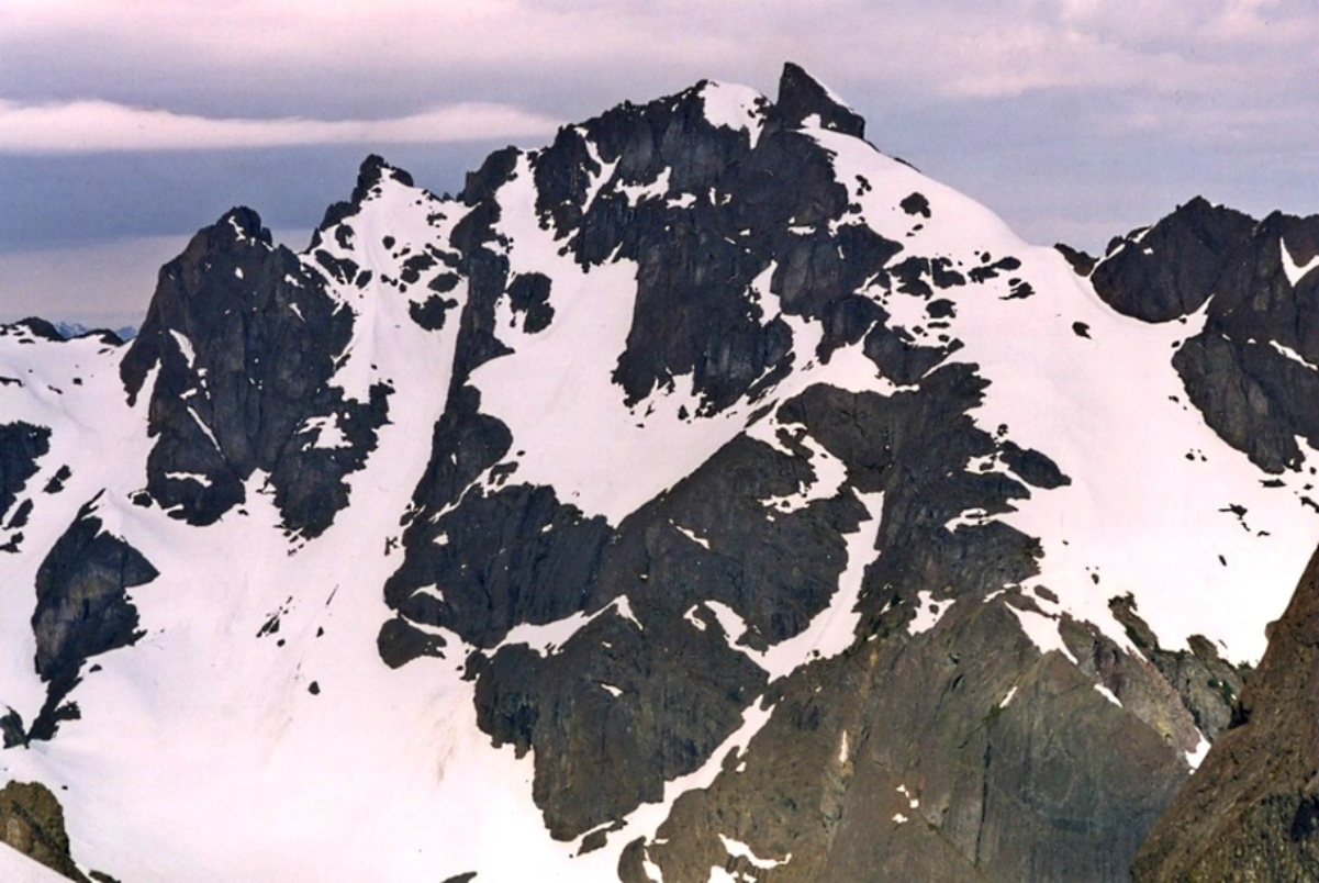 Inner Constance seen enroute Mount Constance. Olympic Mountains 10 May 1998